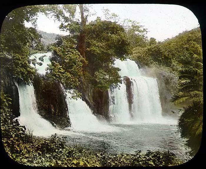 Waterfalls on the Theba River. 1906. Name of Expedition: British East Africa Participants: Carl Akeley Expedition Start Date: October 8, 1905 Expedition End Date: December 21, 1906 Purpose or Aims: Zoology Mammals Location: Africa, Kenya, Theba River Original material: Hand-colored glass lantern slide Digital Identifier: CSZ20288_LS Learn more about The Field Museum's Library Photo Archives.